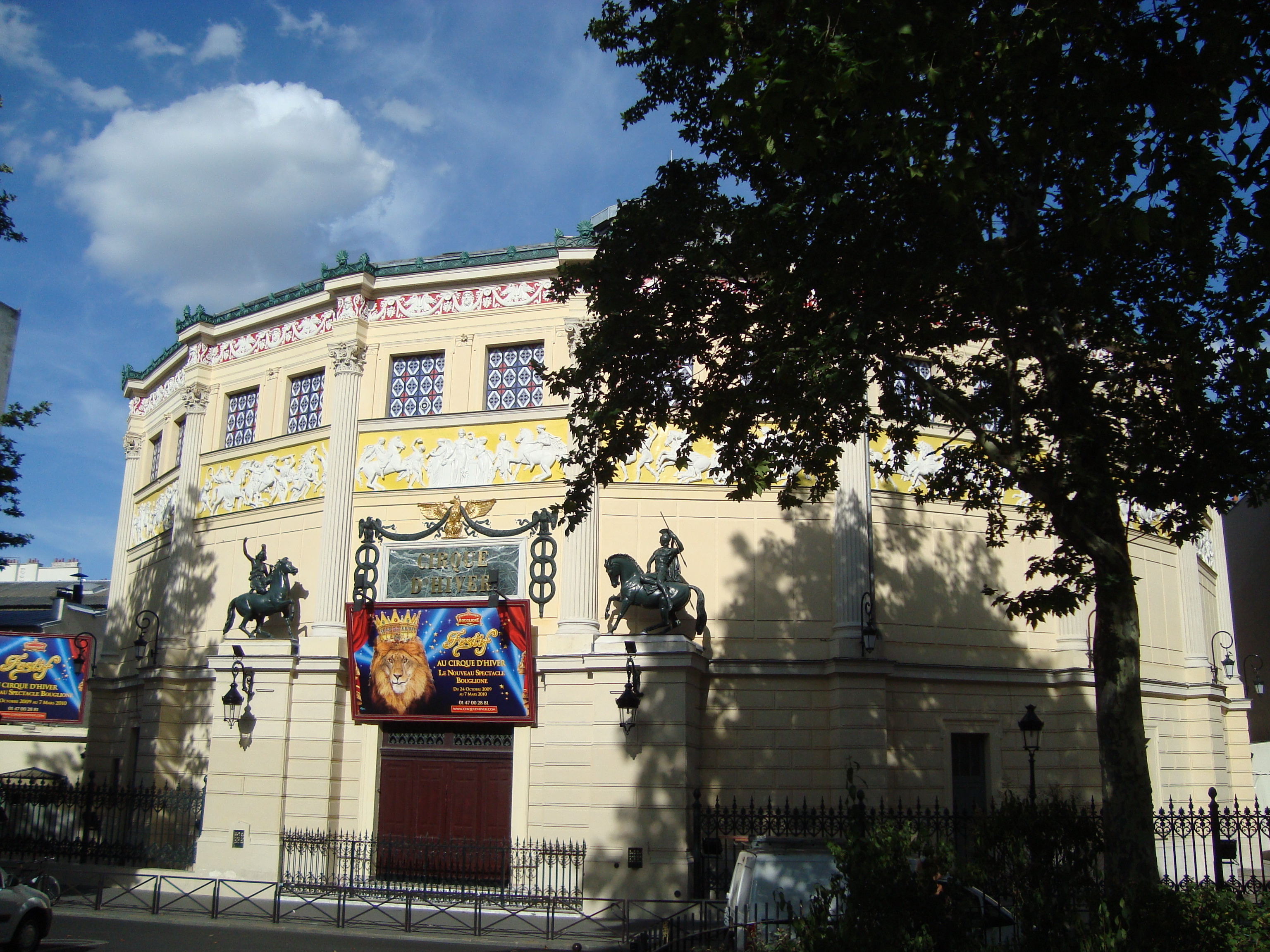 Cirque d'Hiver in Paris